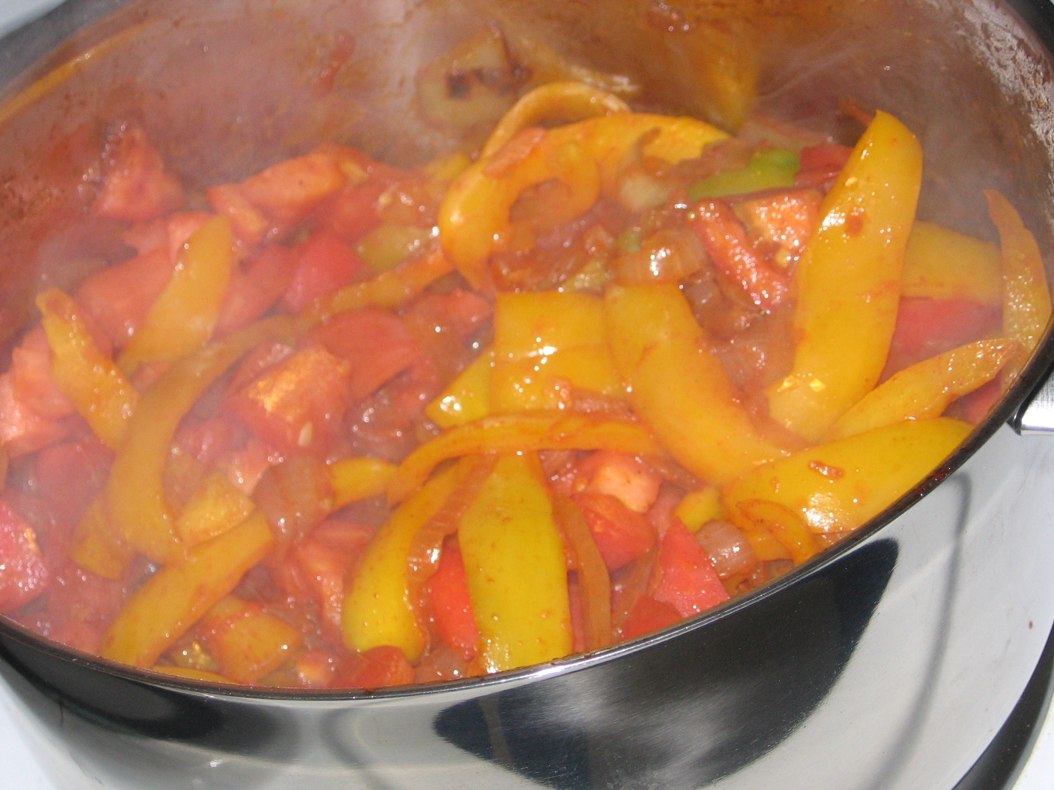 A pot of lecsó kolbásszal, traditional Hungarian dish, simmering on the stove.